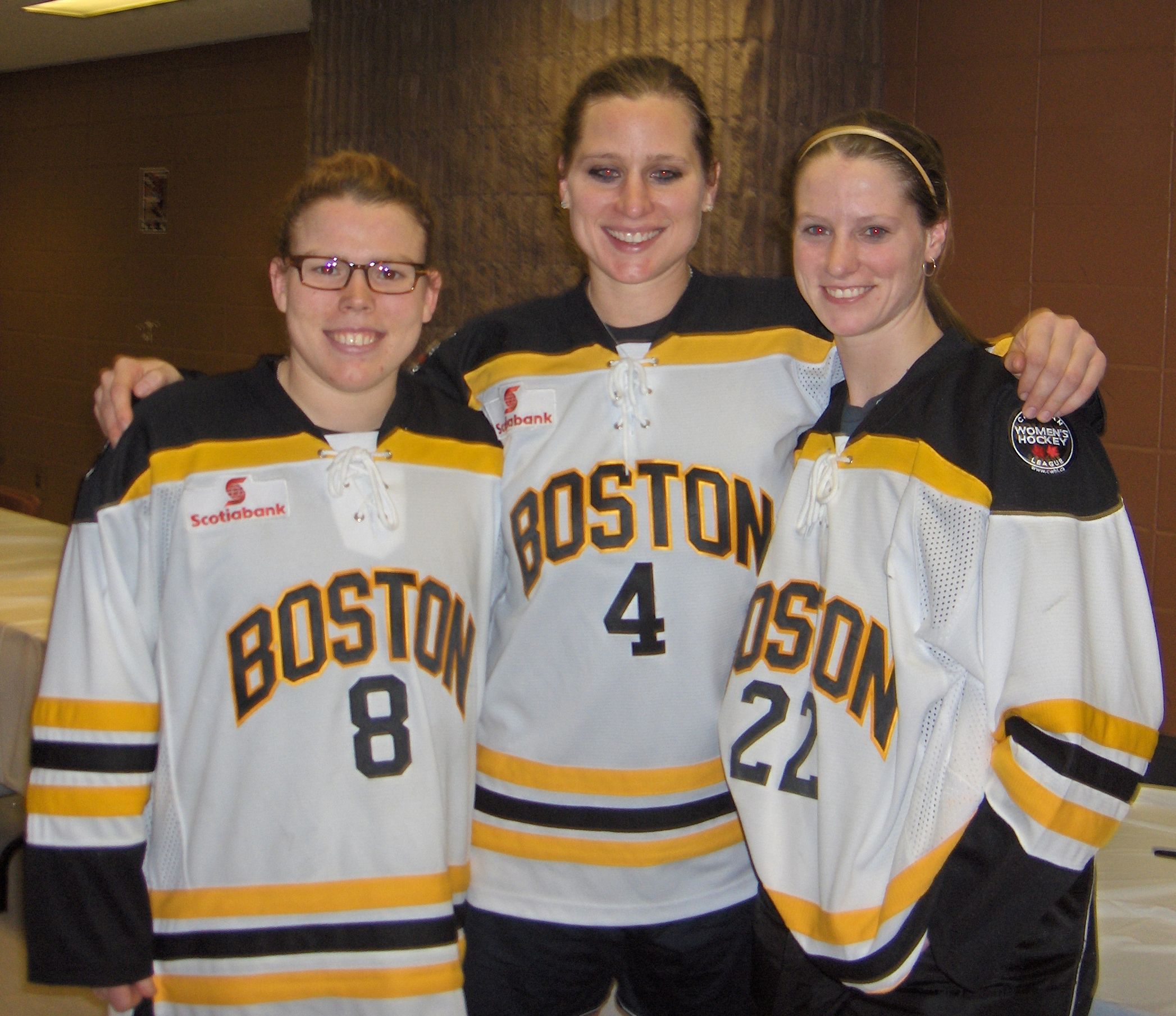 3 Members of National Team USA: # 8 Caitlyn Cahow, # 4 Angela Ruggiero and # 22 Kacey Bellamy: also they are 3 defenders of Boston Blades (Canadian Women Hockey League )